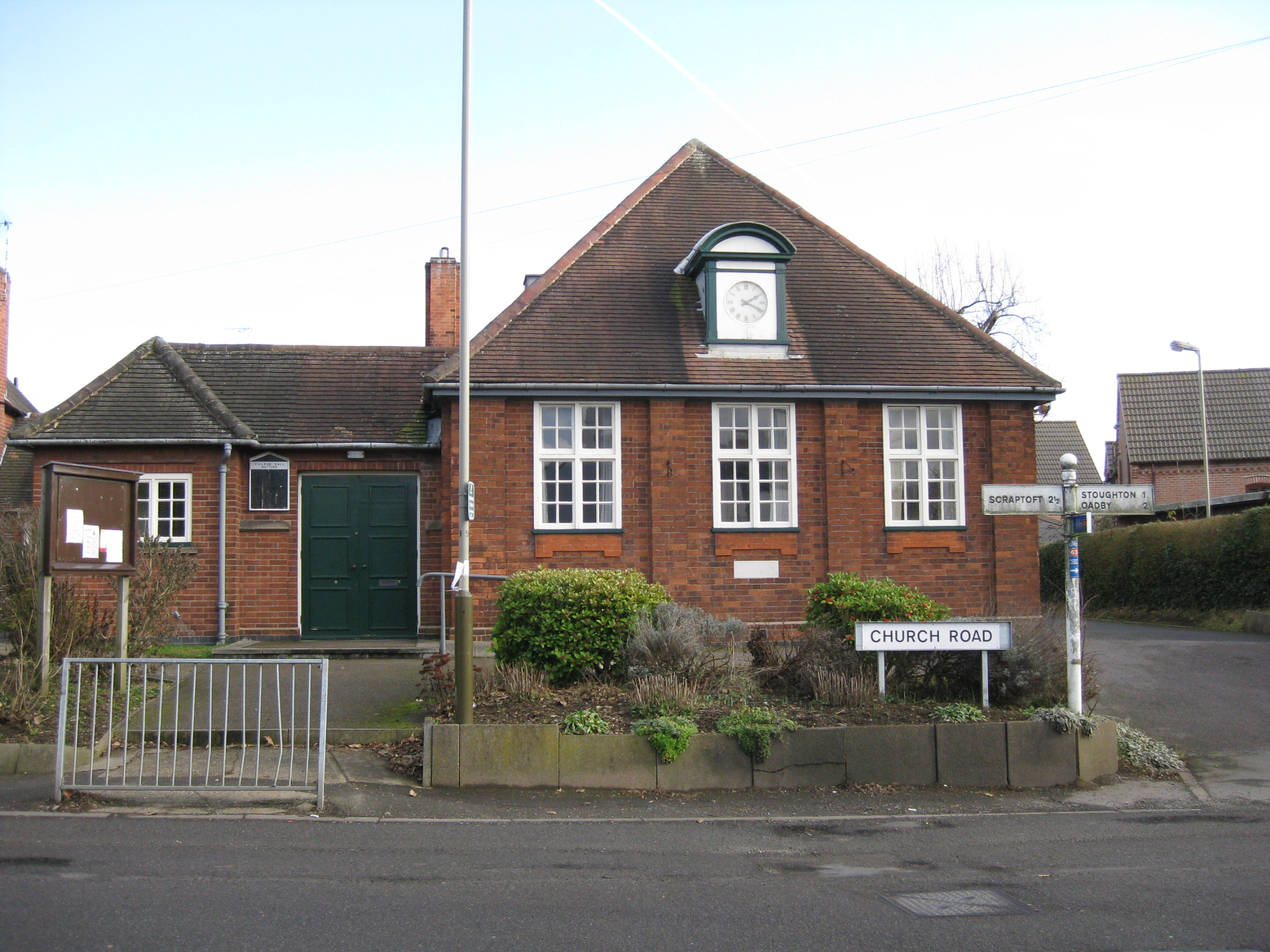 Evington Village Hall (originally King George V Hall, 1912), Church Road, Evington, Leicester LE5 6FA